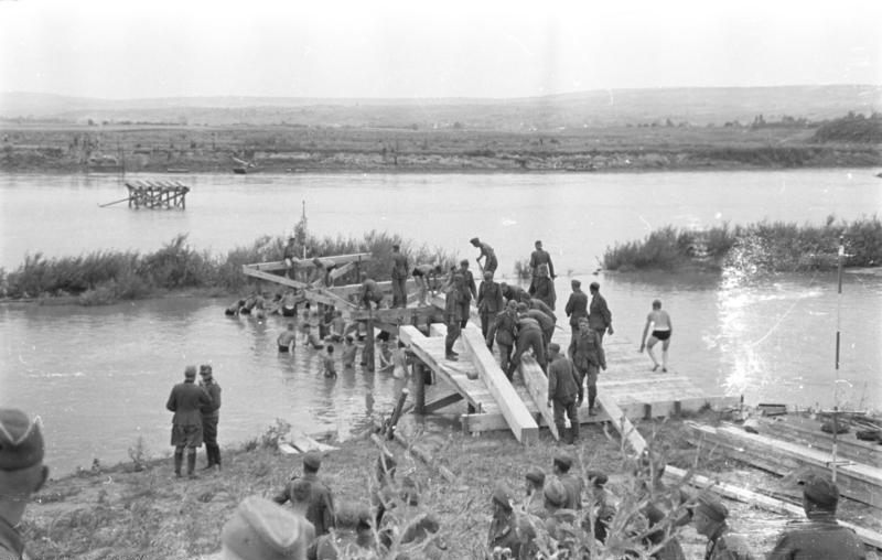 German engineers of the 11th army (Heeresgrüppe Süd) building a pontoon bridge across the Prut River in Romania during the advance towards Uman.